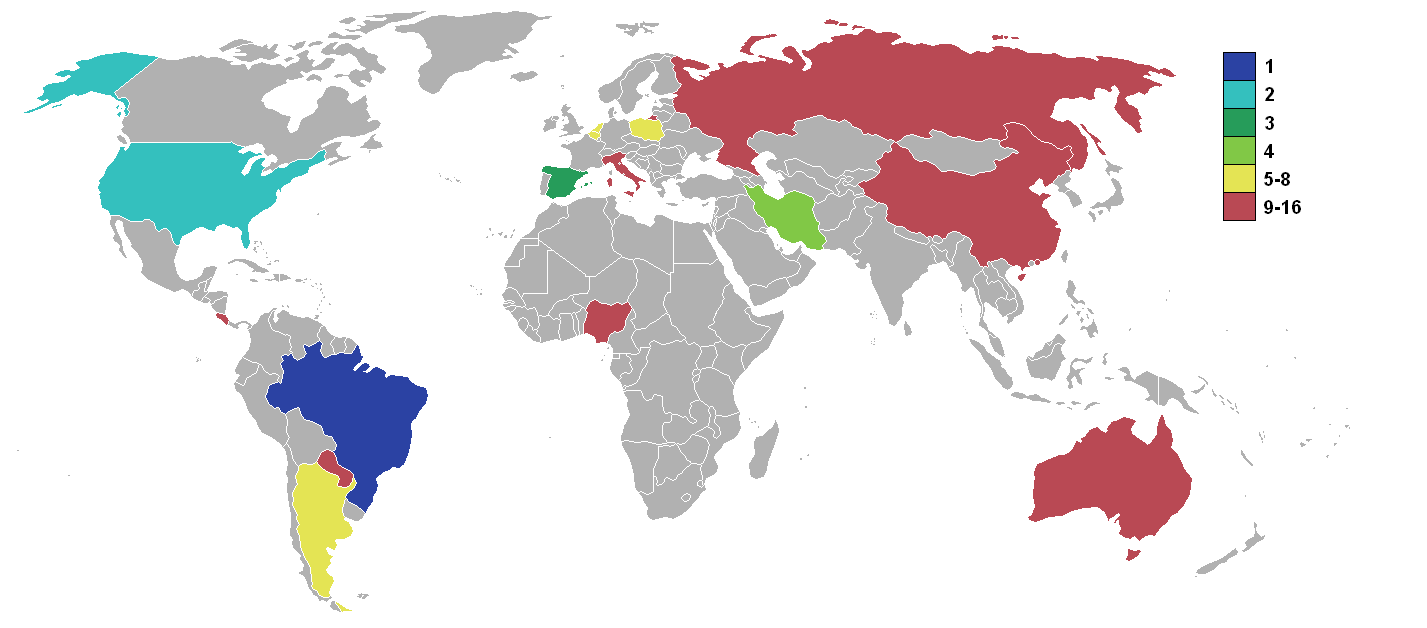 1992 FIFA Futsal World Championship